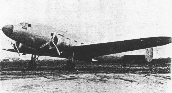 Polish passenger plane PZL.44 Wicher of 1938